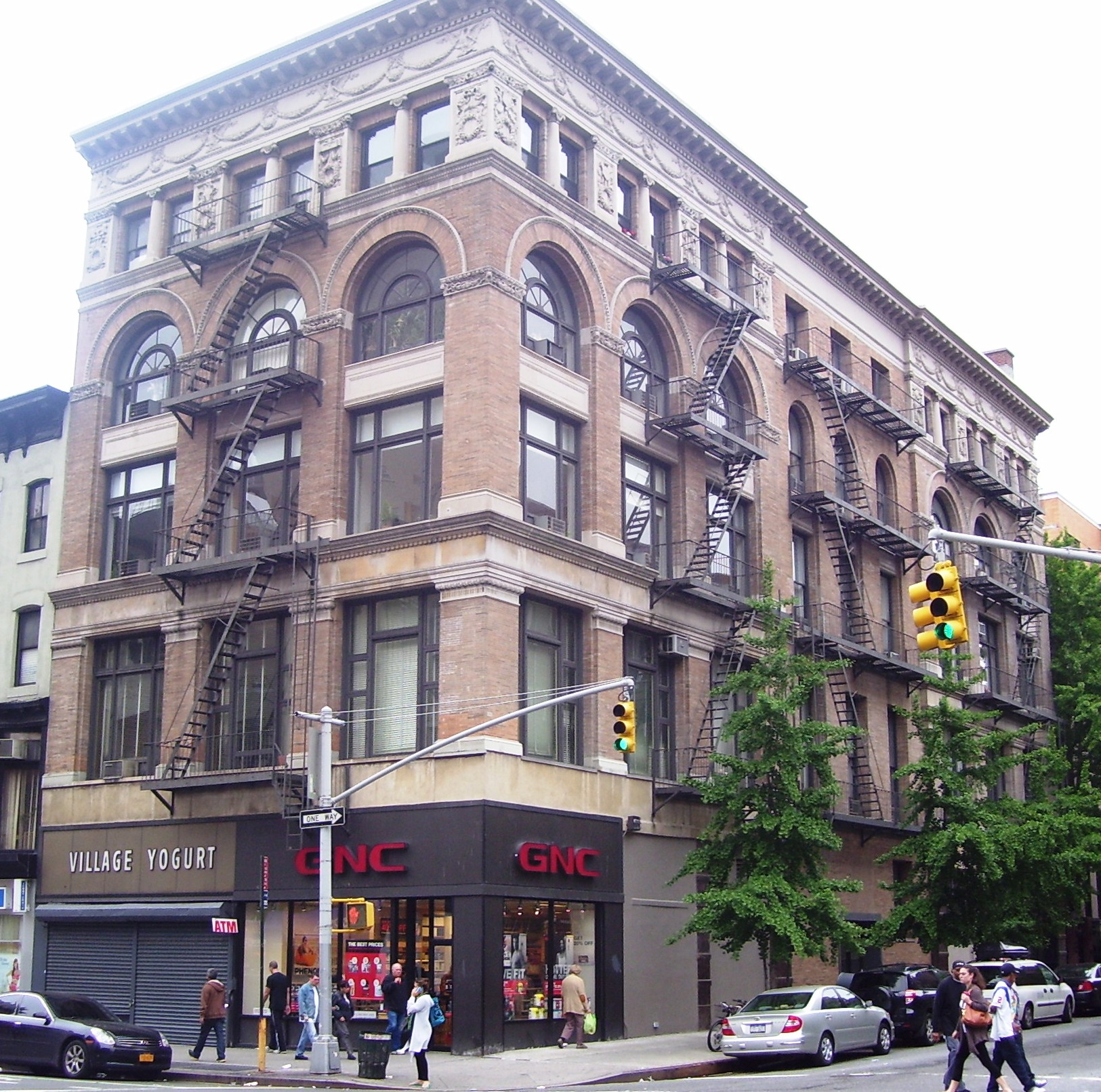 100 West 15th Street on the corner of Sixth Avenue in the Chelsea neighborhood of Manhattan, New York City, was built c.1920. (Source: NYC GIS map)